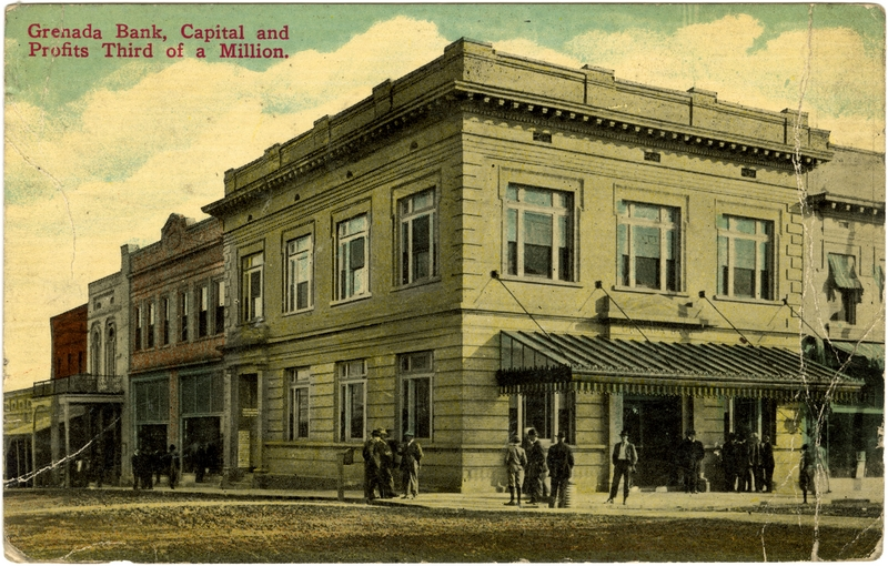 Grenada Bank in Grenada, Mississippi